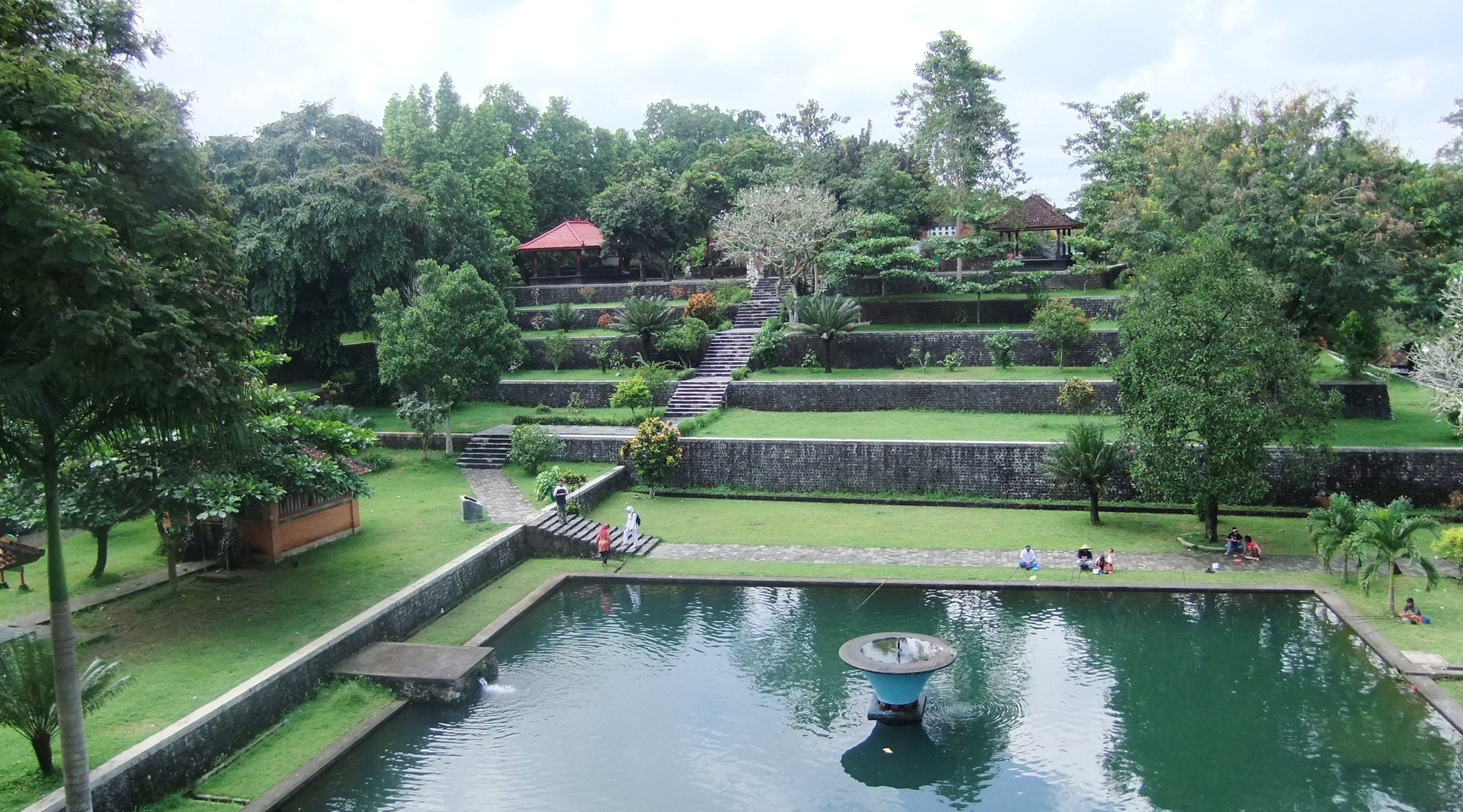 Narmada Water Palace, Cakranegara, Lombok, Indonesia